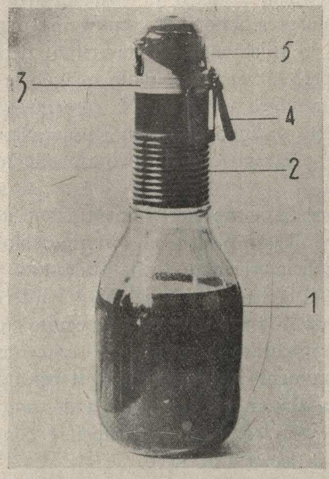 WWII era italian incendiary bomb